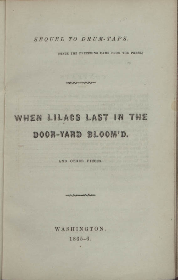 Title Page from first printing of American poet Walt Whitman's Sequel to Drum-Taps: When Lilacs Last in the Dooryard Bloom'd and other poems (Washington DC: Gibson Brothers, 1865-1866). from The Walt Whitman Archive. Editors. Ed Folsom and Kenneth M. Price. 18 April 2011 Other information Permission: The Walt Whitman Archive releases its materials under Creative Commons Attribution-NonCommercial-ShareAlike 3.0 Unported License, which permits disseminating and alteration. Comprehensive attribution is stated above. This image was altered by cropping to focus entirely on the page and excise background in order to render this a two-dimensional (2D) scan or photograph of the work. As this work is in the public domain, and only a two-dimensional representation, it is not eligible for copyright protection, pursuant to Bridgeman Art Library v. Corel Corp., 36 F. Supp. 2d 191 (S.D.N.Y. 1999). This work remains free use and in the public domain.